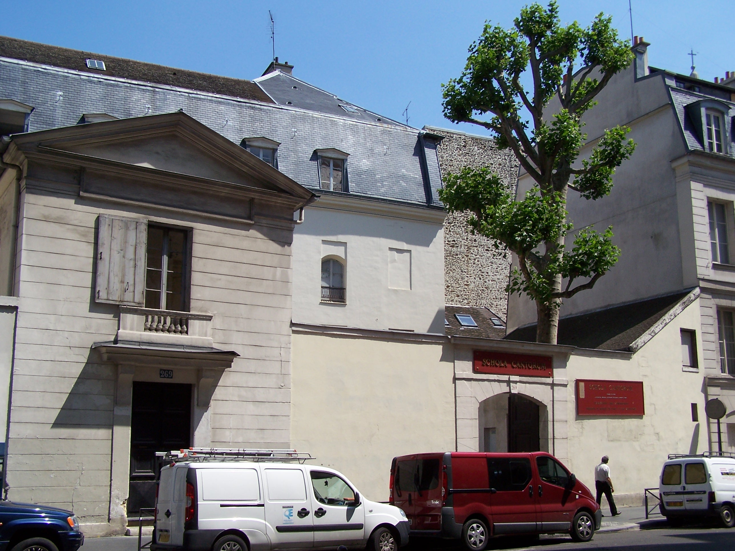 View of the Schola Cantorum at 269, rue Saint-Jacques, Paris